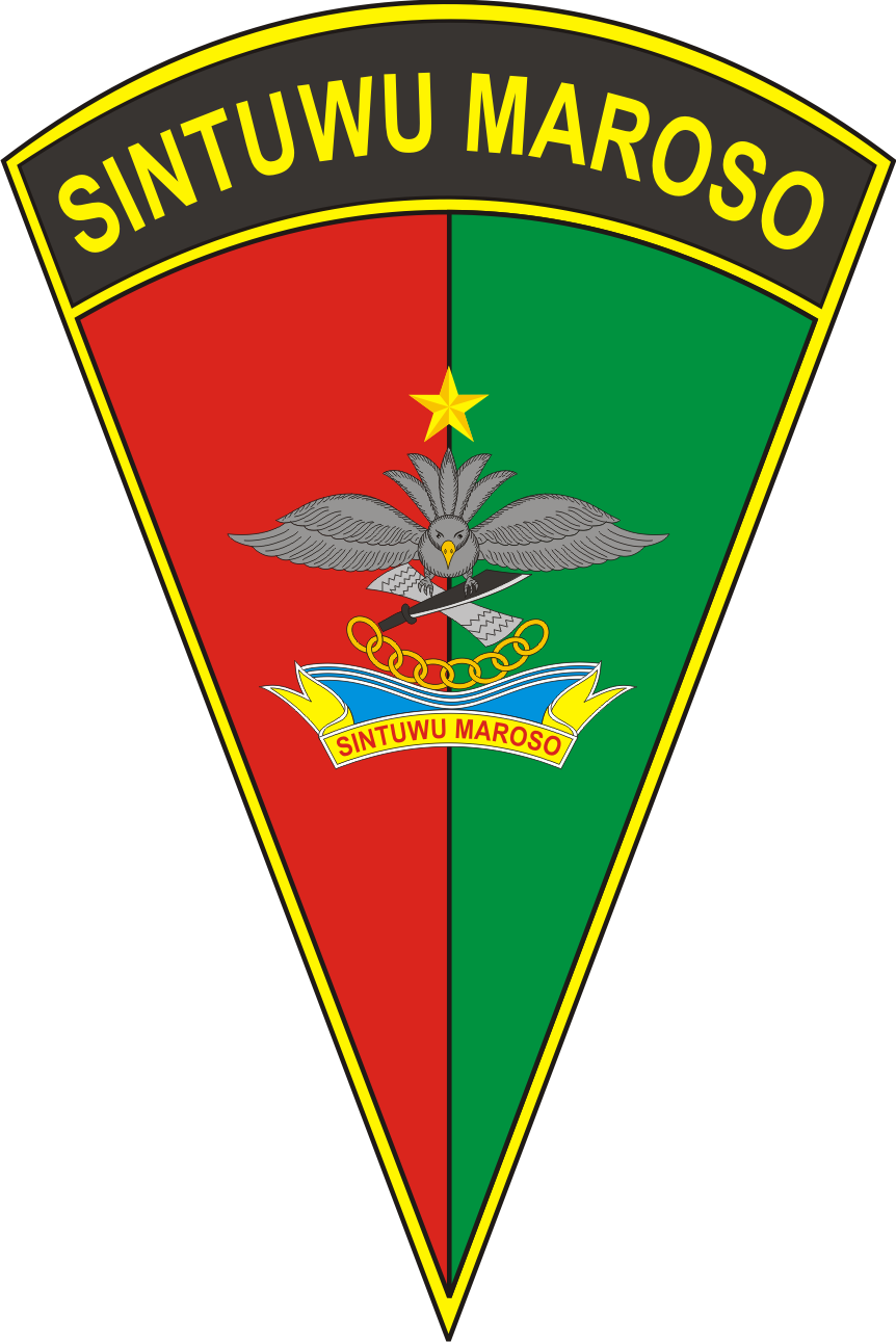 This is the logo of 714th Infantery Battalion of Indonesian Army.